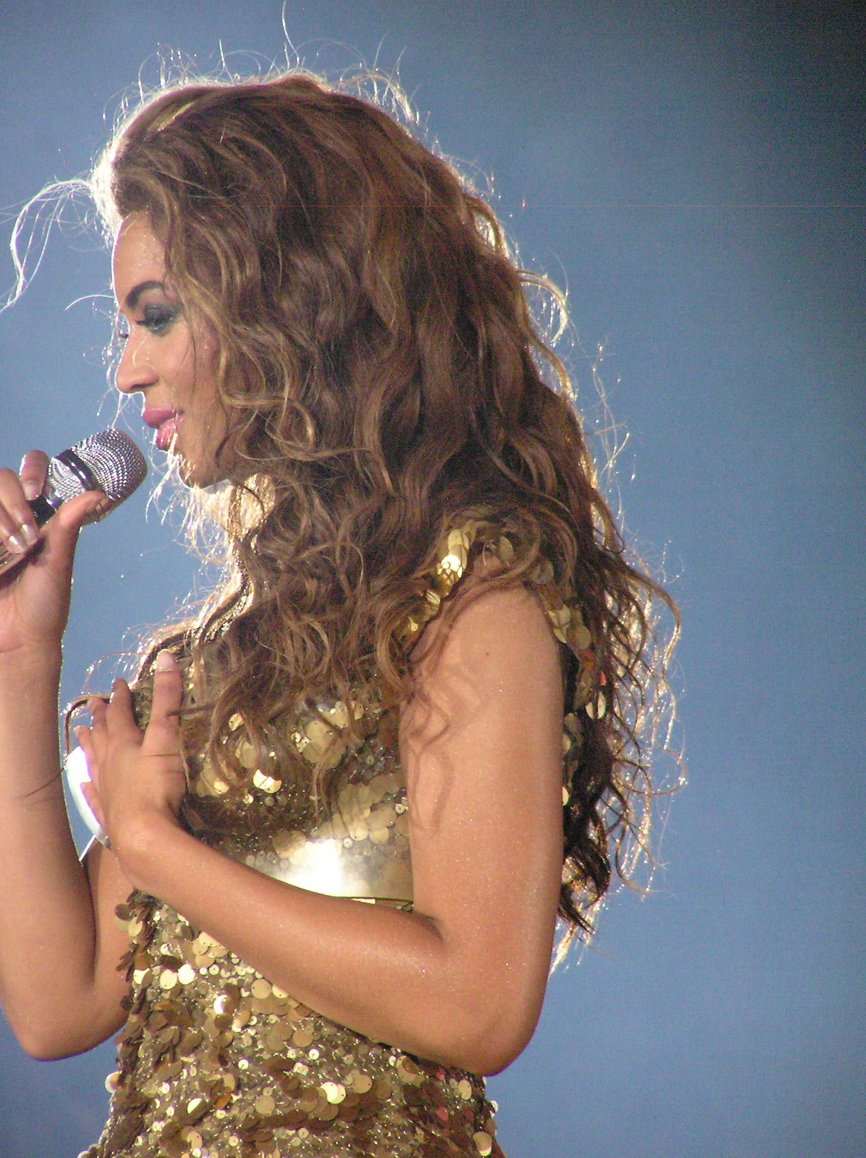 Beyoncé Newcastle 2009